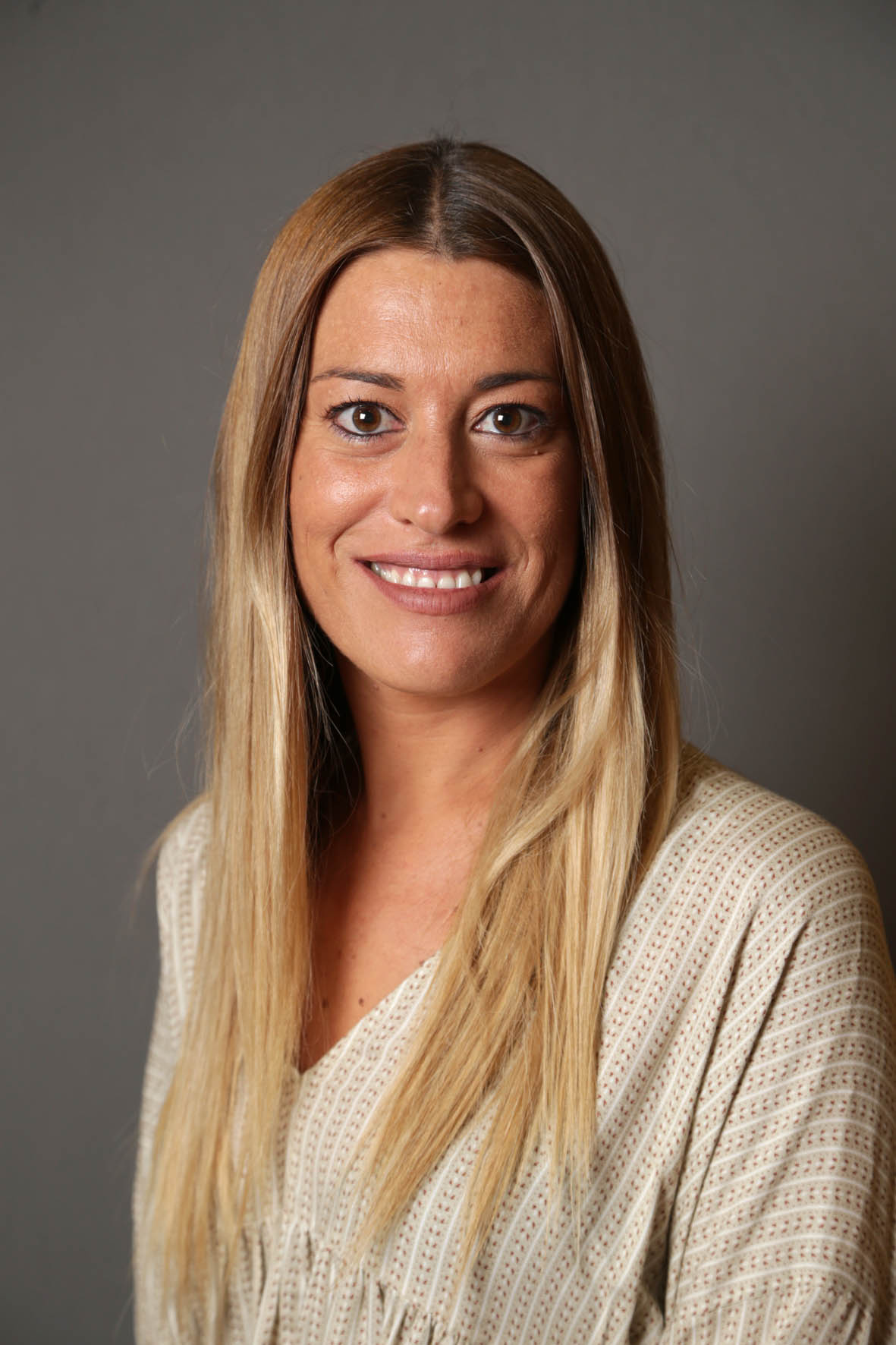 Candidats Eleccions Generals 2015 Miriam Nogueras